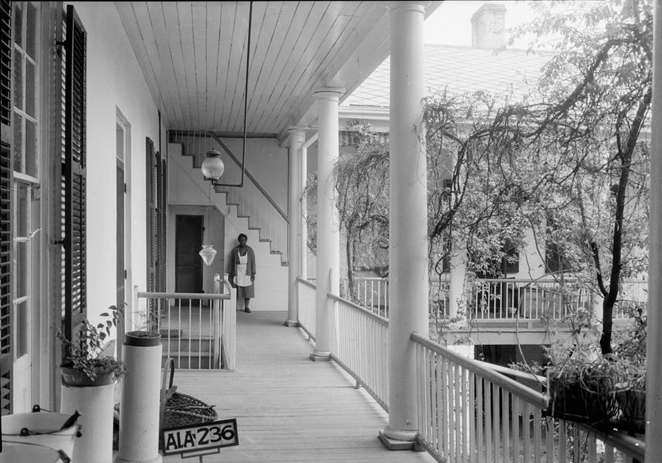 Governor Samuel Pickens House, best known as Umbria, State Route 14, Sawyerville vicinity, Hale, AL. REAR PORCH AND STAIRS TOWARDS E. OF MAIN BLDG. Completed circa 1830 for Samuel Pickens, destroyed by fire on December 30, 1971.